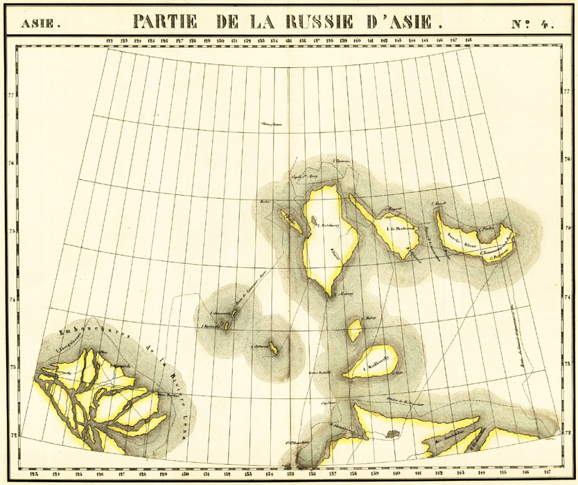 Philippe Vandermaelen(1791-1869) map "de la Russie d'Asie"